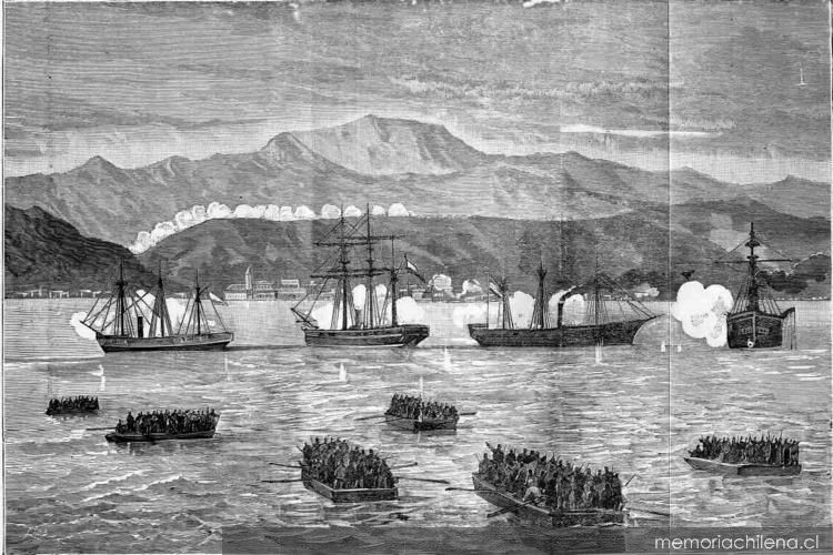 Desembarco y toma de Pisagua, 1879. Chalana